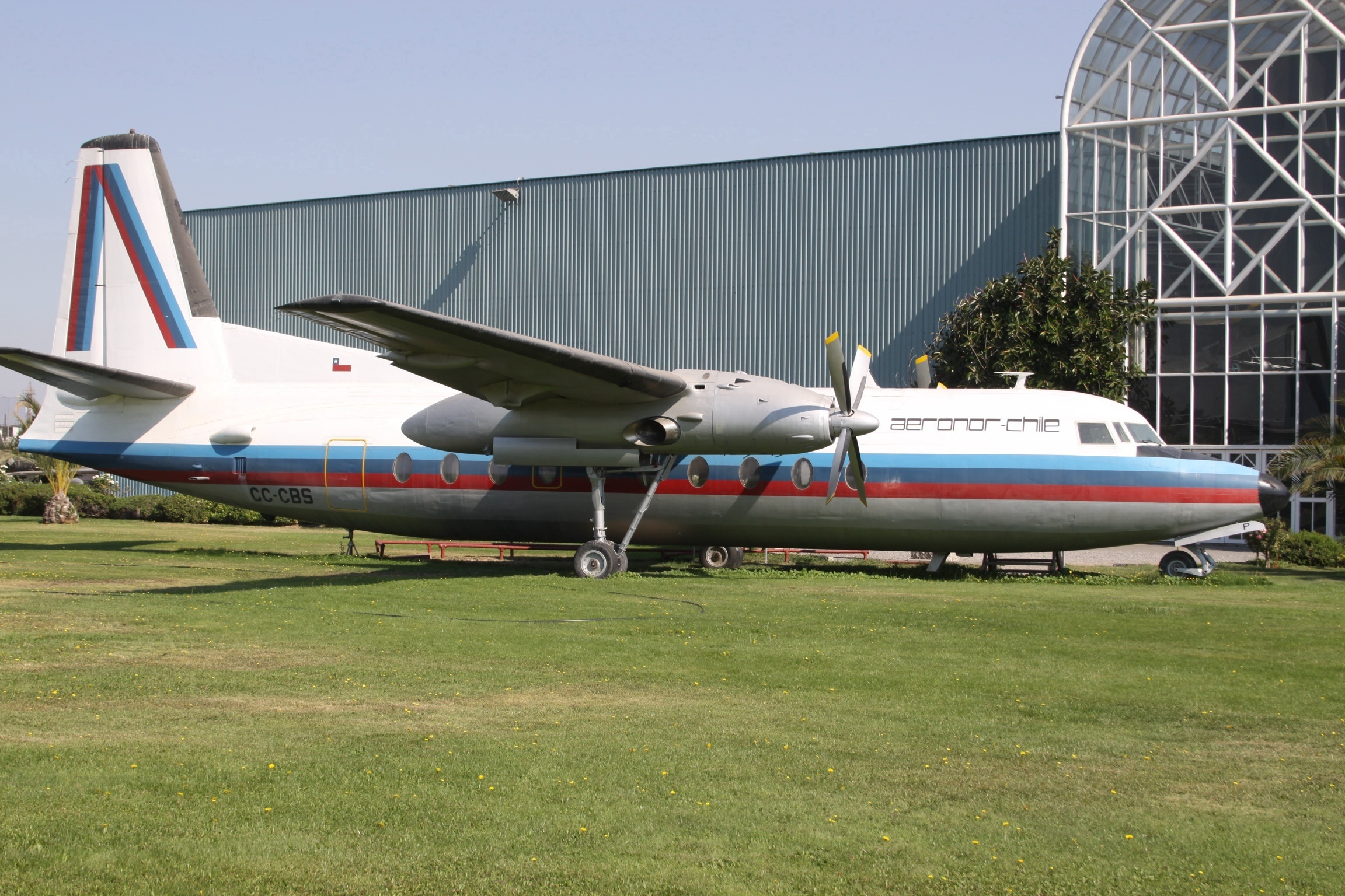 At Santiago Los Cerillos